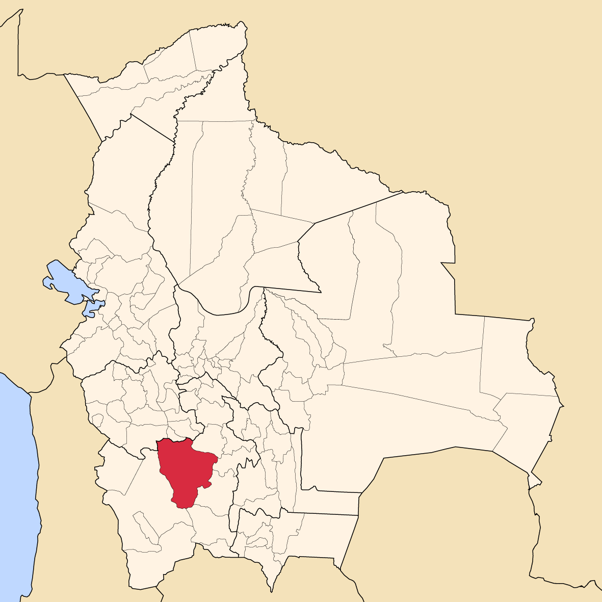 Map of Bolivia showing Antonio Quijarro province, Potosí